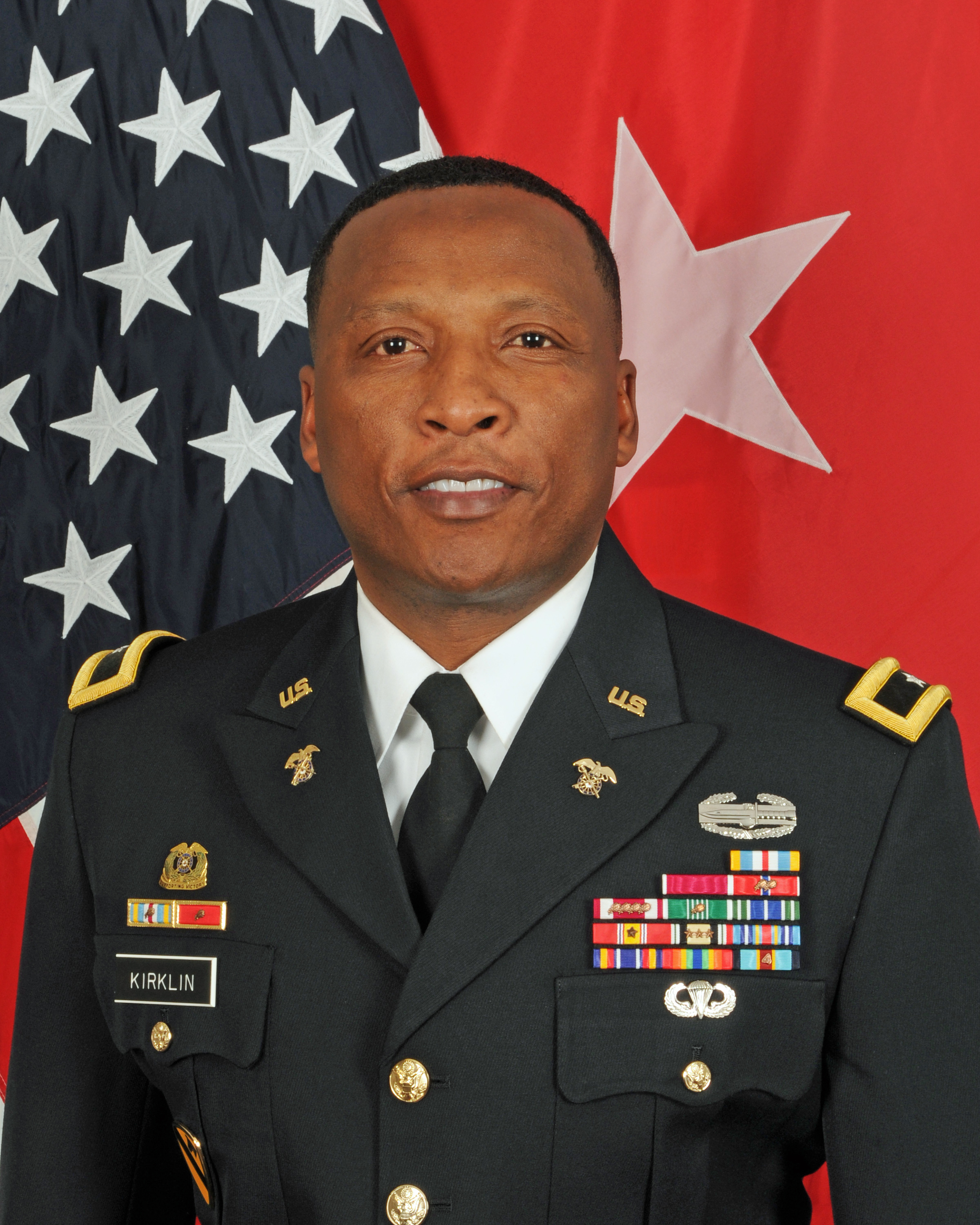 Photo of Colonel Ronald Kirklin, U.S. Army Quartermaster School Commandant